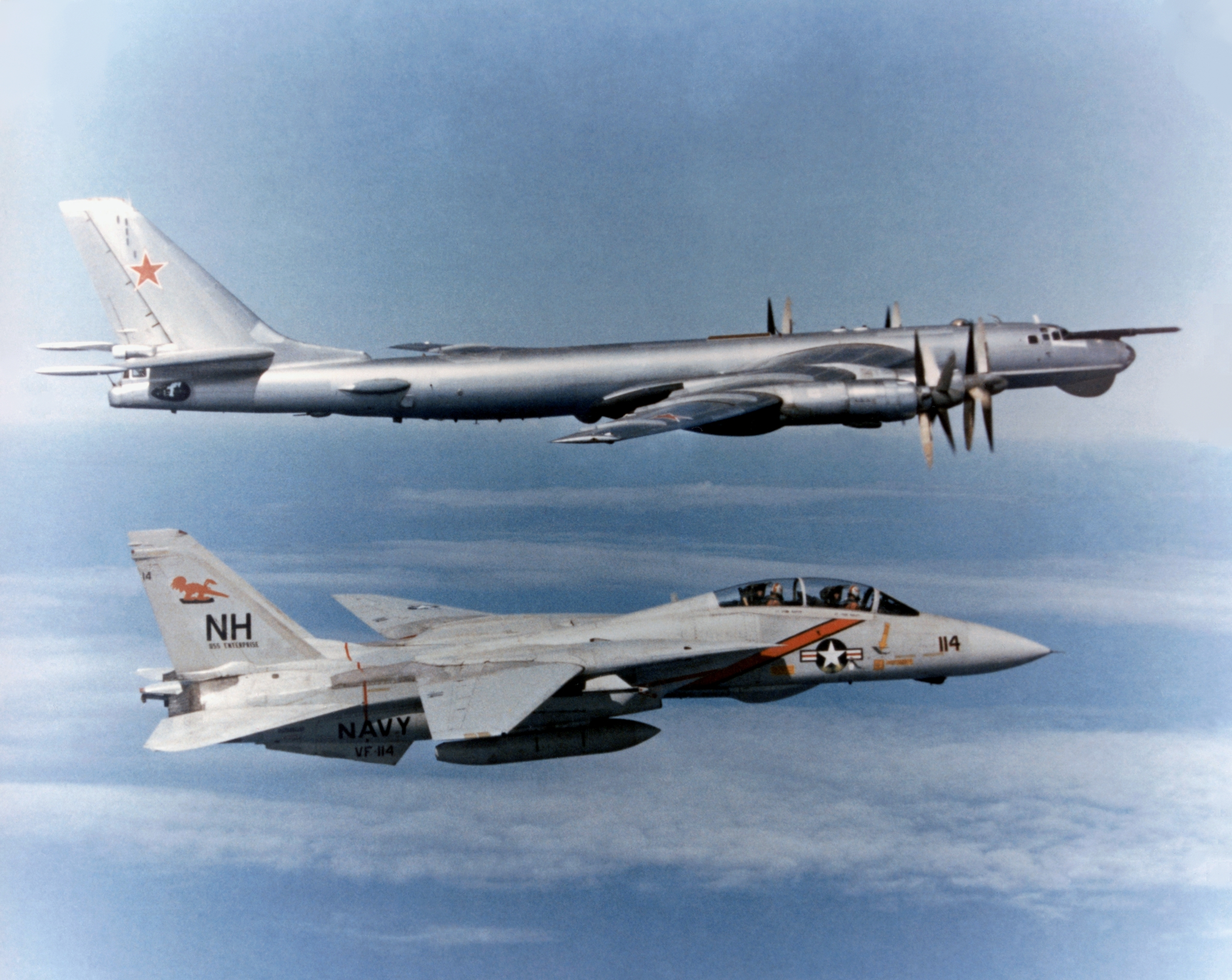 A U.S. Navy Grumman F-14A Tomcat of Fighter Squadron VF-114 Aardvarks flying alongside a Soviet Tupolev Tu-95RT Bear D maritime patrol aircraft. VF-114 was assigned to Carrier Air Wing Eleven (CVW-11) aboard the aircraft carrier USS Enterprise (CVN-65) for a deployment to the Western Pacific and the Indian Ocean from 1 September 1982 to 28 April 1983.